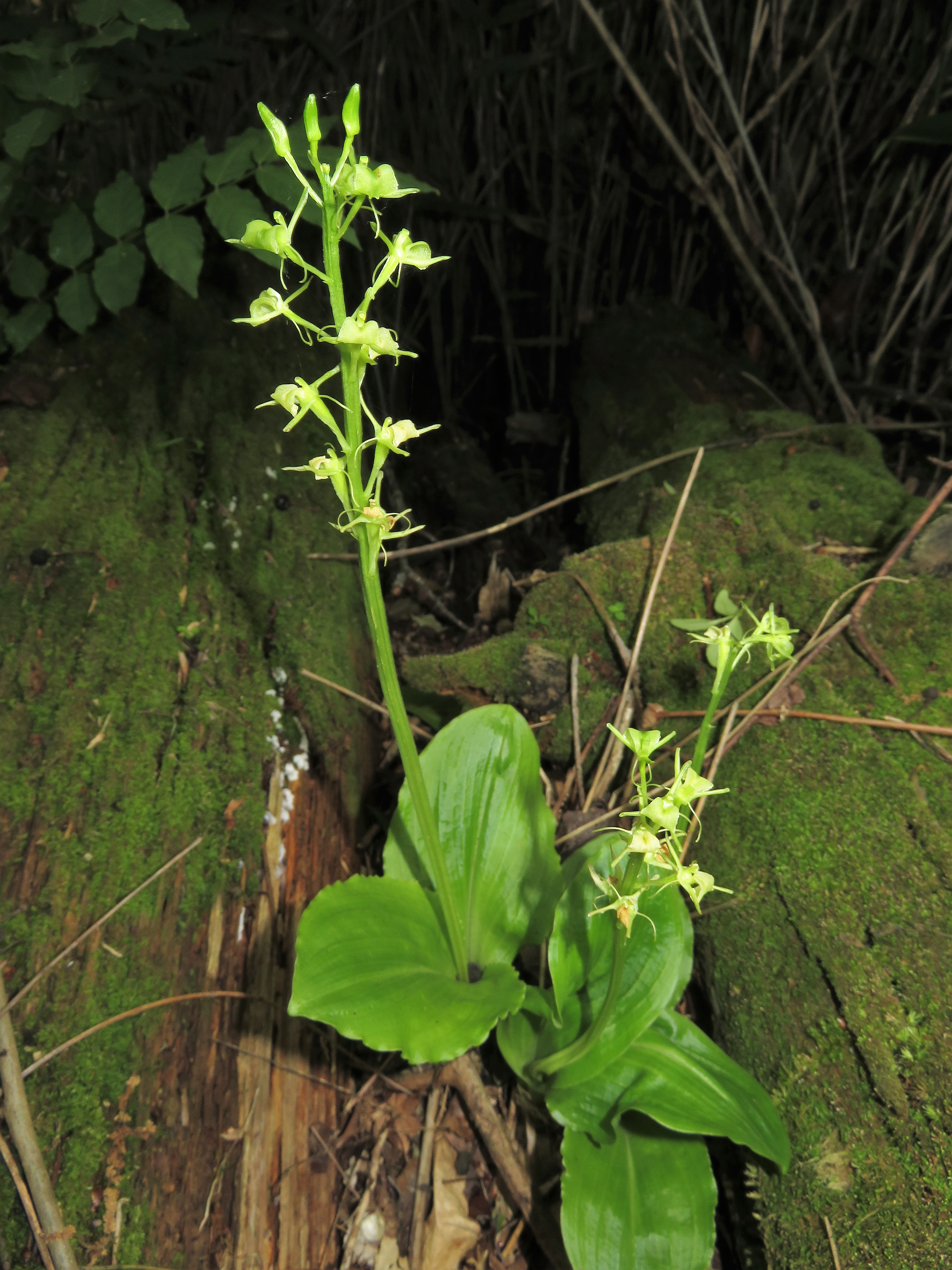 Liparis kumokiri, Hama-dori area, Fukushima pref., Japan